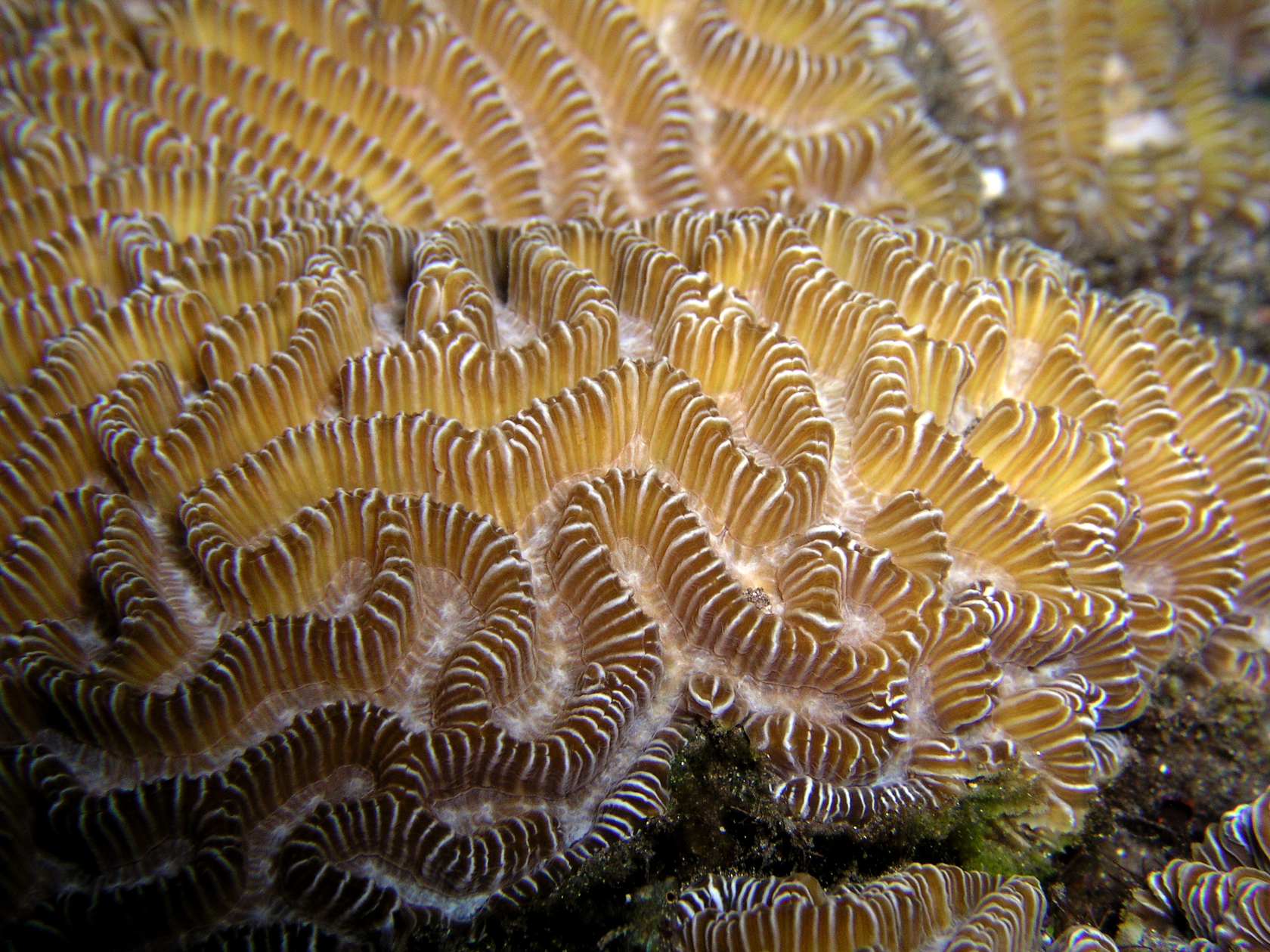 Platygyra lamellina (Hard brain coral) up close